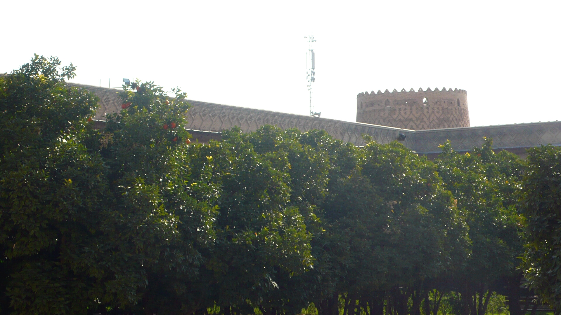 Arg of karim khan, Interior view